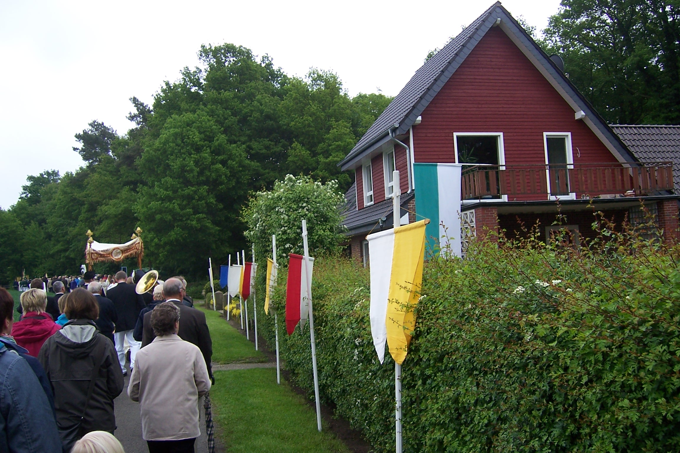 Corpus Christi Procession Ochtrup-Welbergen, NRW, Germany.